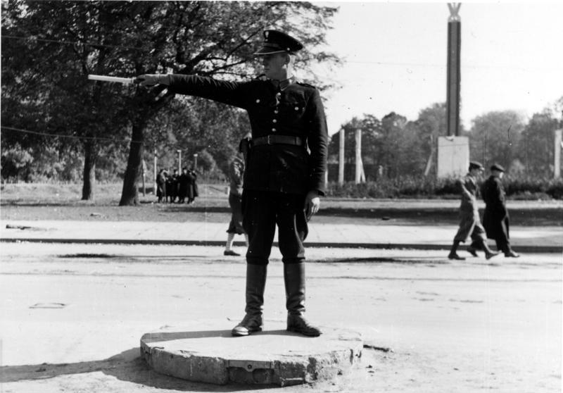 Warsaw during World War II: Policeman in Aleje Ujazdowski near Na Rozdrożu Square. There were plans to place a statue of Józef Piłsudski in this area and the monument in the back was put there temporarily.